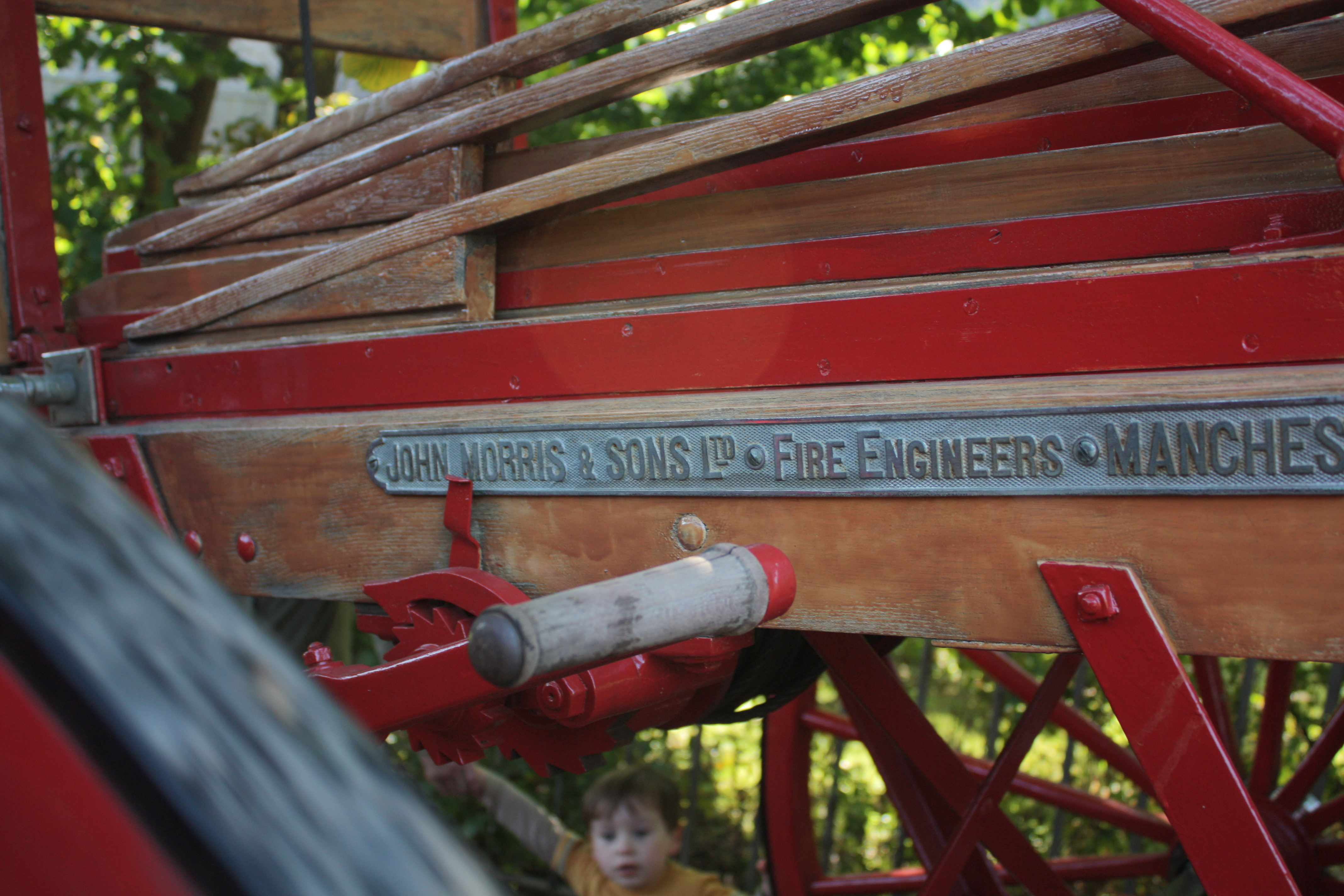 Makers plate of John Morris & Sons Ltd, Fire Engineers, Manchester, on "AJAX" Fire Escape Ladders carried by City of Chester Fire Service Dennis S7 Pump Escape.